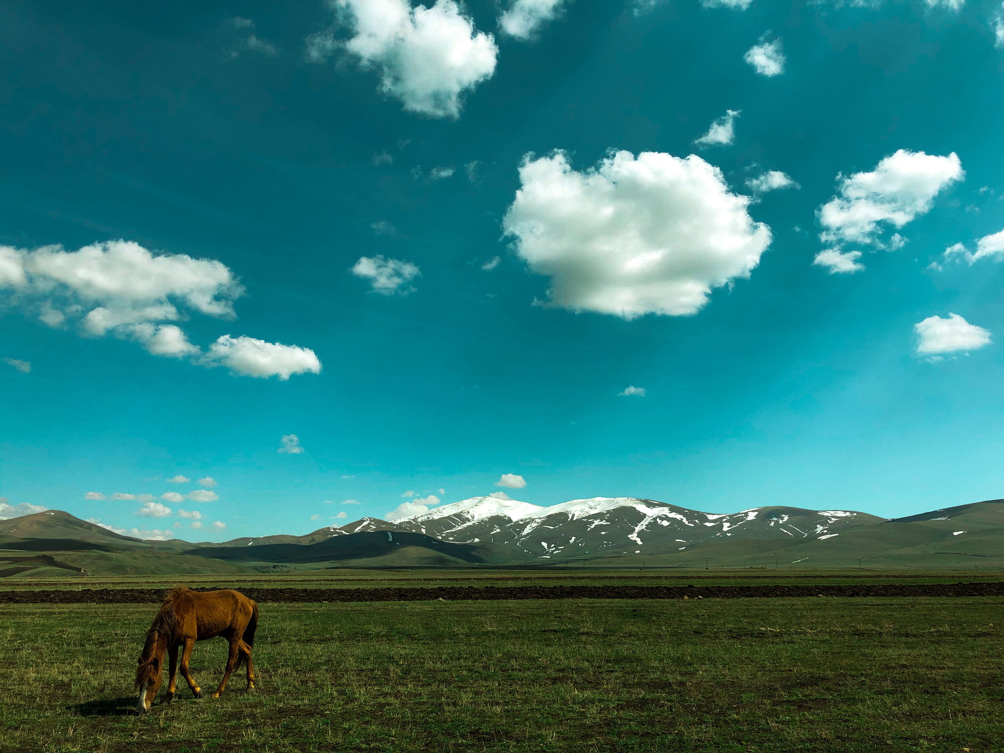 Chambarak